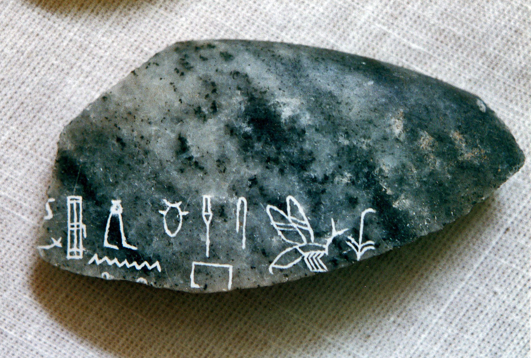 Fragment of a vase of diorite, with part of the name of King Sekhemib Perenmaat Nesut-bit/Nebty. Provenance: Saqqara. Pyramid of King Djeser. Outside of the gallery H and B, Cairo. Egyptian Museum, JE 55287 After listing the titles and the name of King Sekhemib Perenmaat, the text of this fragment retains at its end, a title we see with some frequency in the texts of the time: "The store of provisions" Firth-Quibell, Step. Pyr., II, pl. 89, No. 3 Gunn, ASAE. XXVIII, p. 161